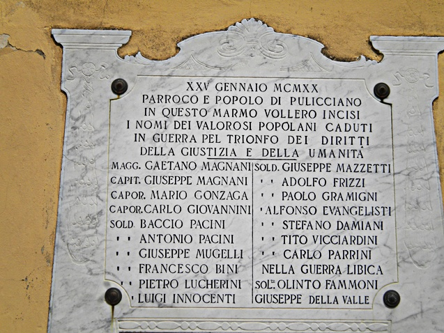 war memorial sign